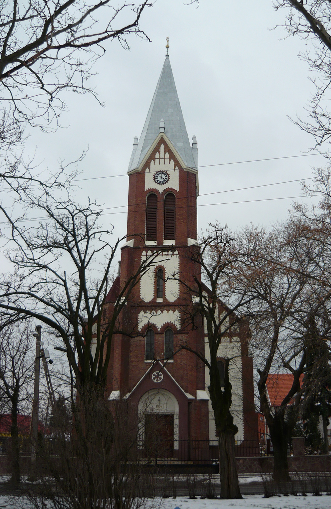 Church in Rákoscsaba